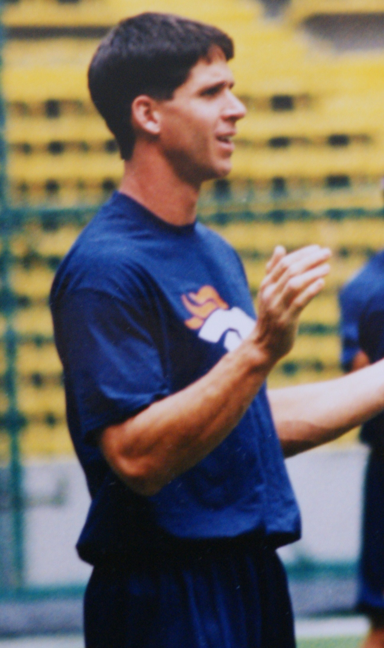 Denver Broncos wide receiver Ed McCaffrey and two other players (who?) exercise at training camp circa 1998.